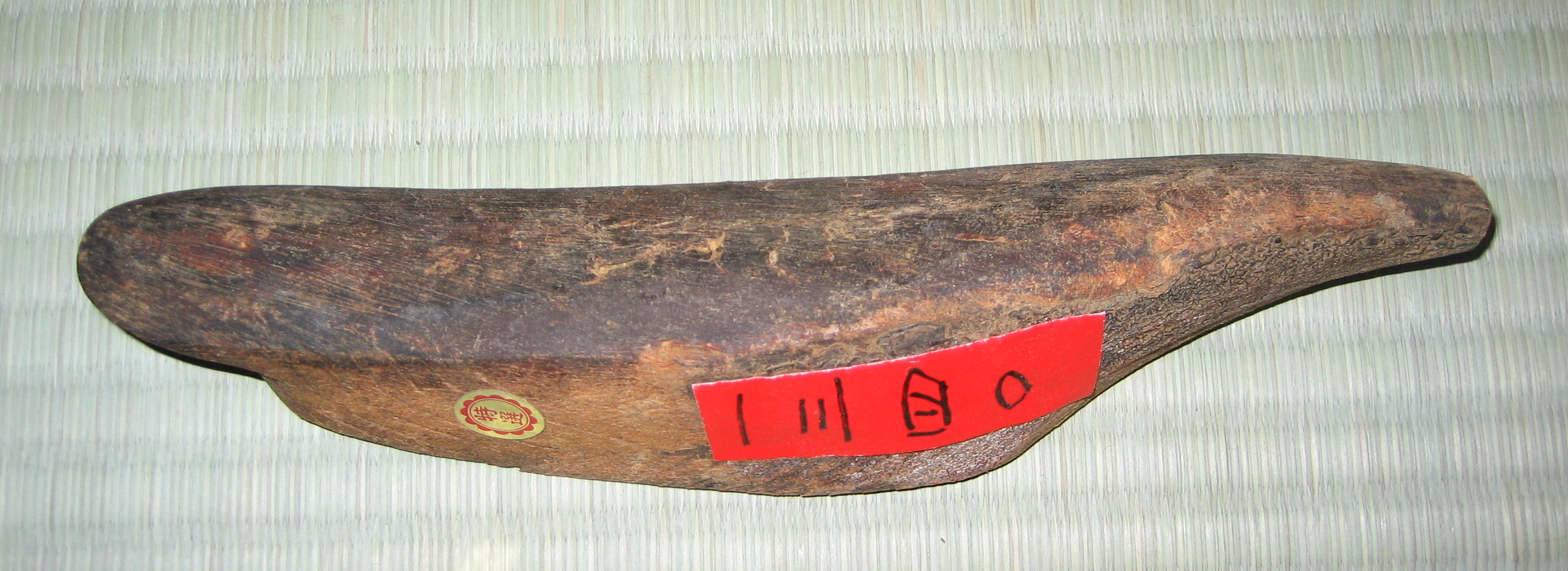 A block of dried Bonito Katsuobushi (鰹節), about 20cm long.